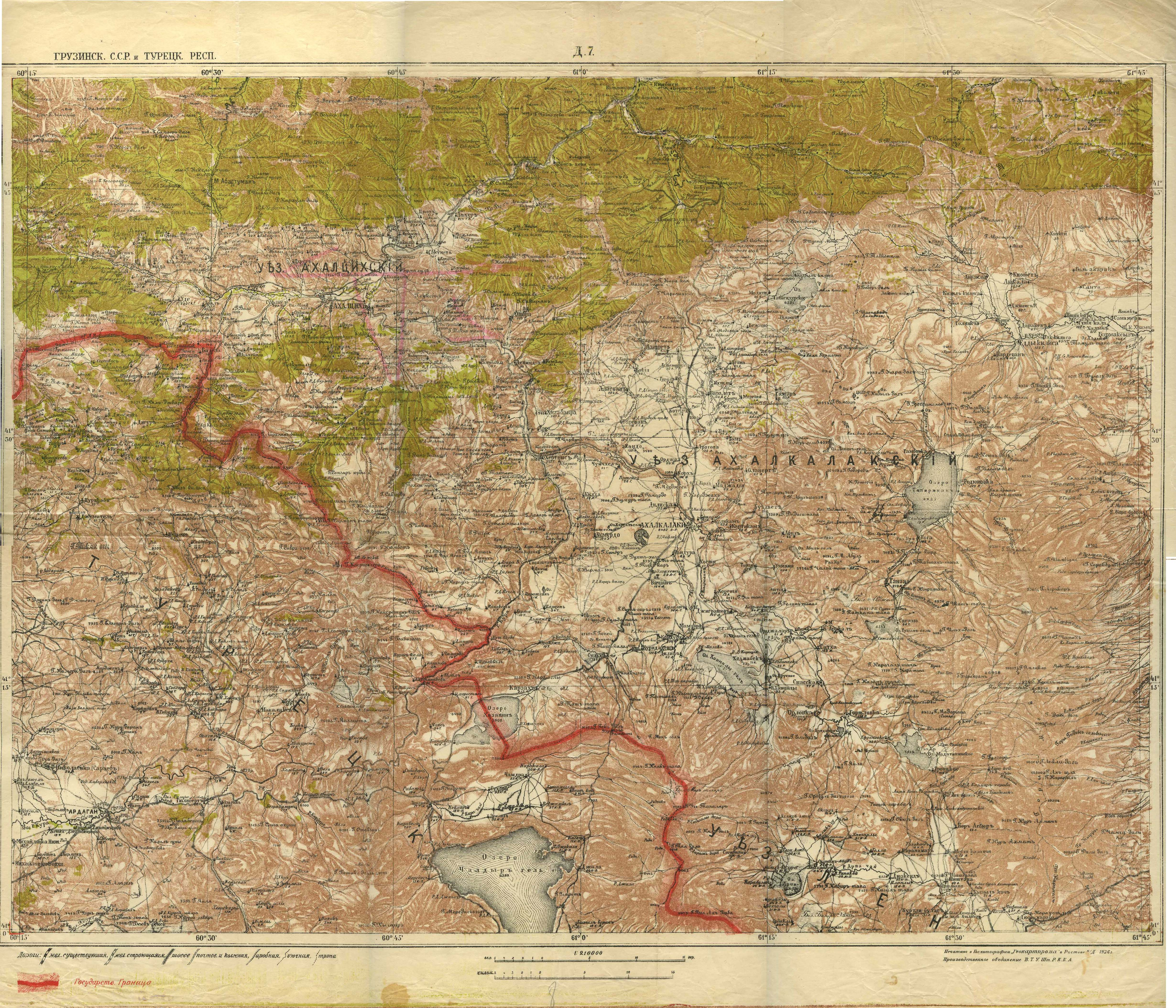 Five verse map of the Caucasus region. Area - E7 (Д7)